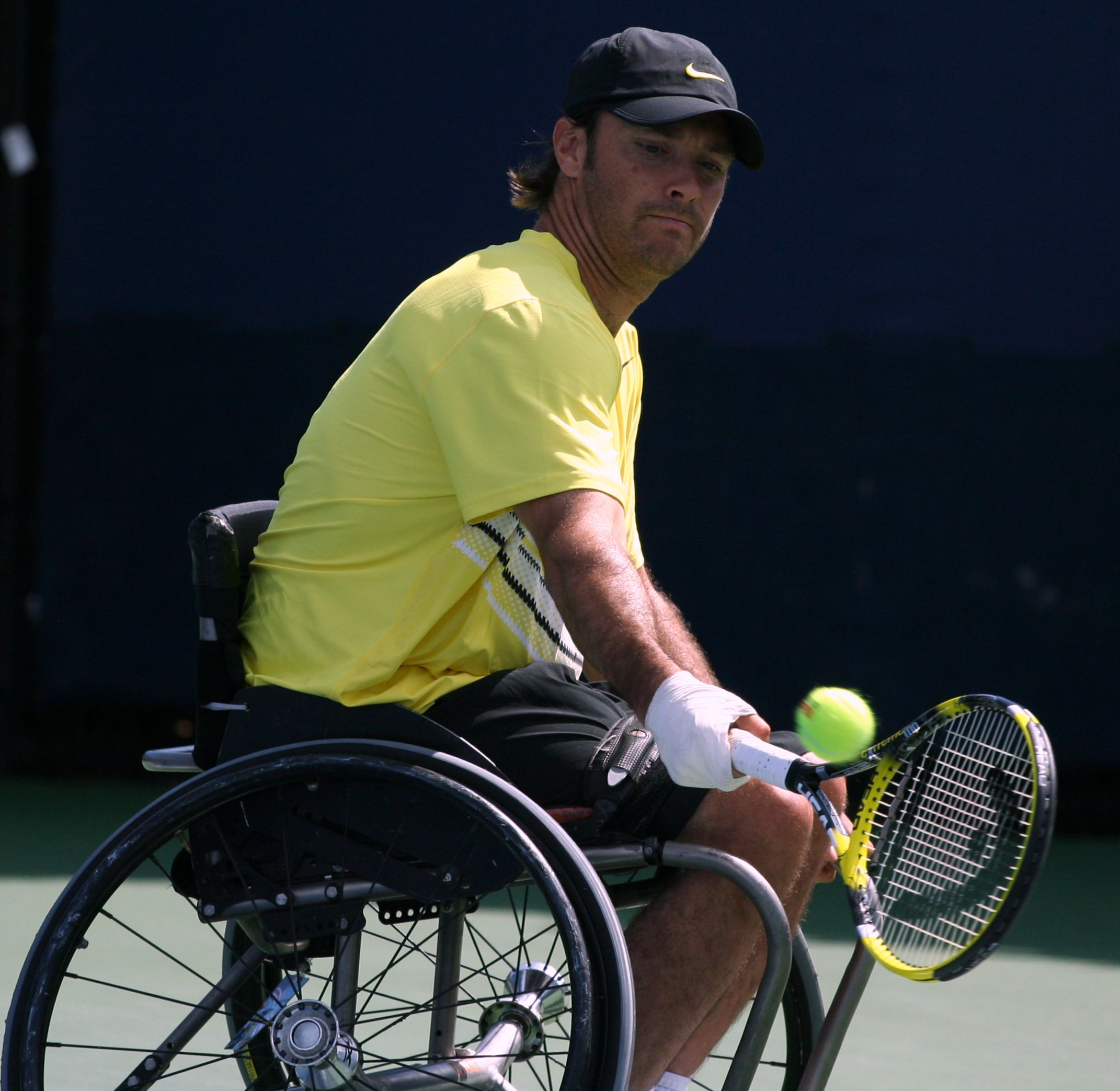 U.S. Open Wheelchair Thursday, Sept. 8, 2011